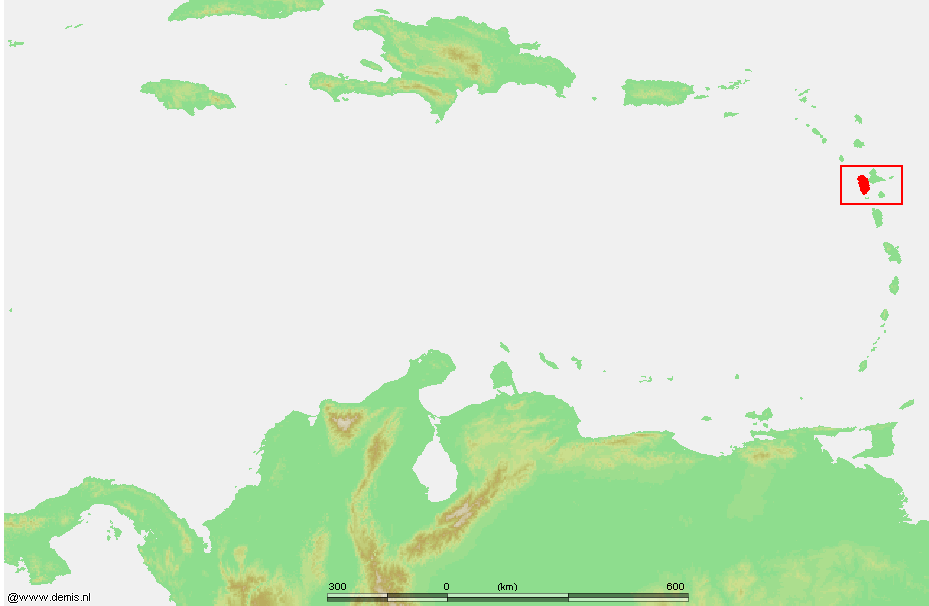 Caribbean - Basse Terre.PNG